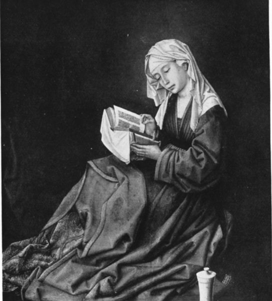 Photograph from the 1930s of The Magdalen Reading before it was cleaned.